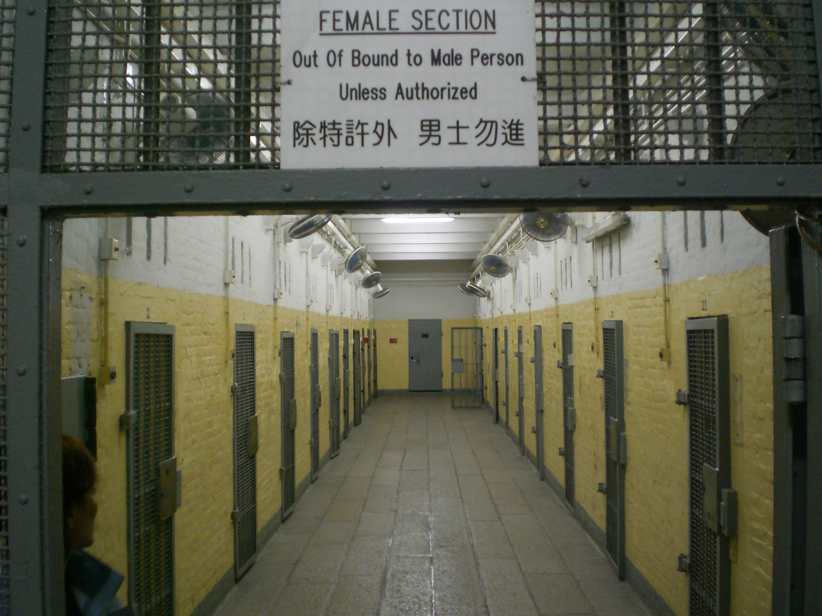 域多利監獄, Victoria Prison, Central, Hong Kong Author is me.